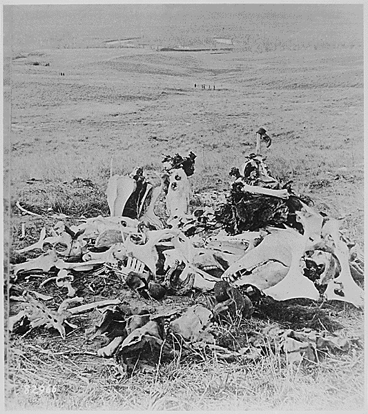 "Scene of Gen. Custer's last stand, looking in the direction of the ford and the Indian village." A pile of bones--including the skeletons of cavalry horses--on the Little Big Horn battlefield--was all that remained, ca. 1877. From the National Archives.